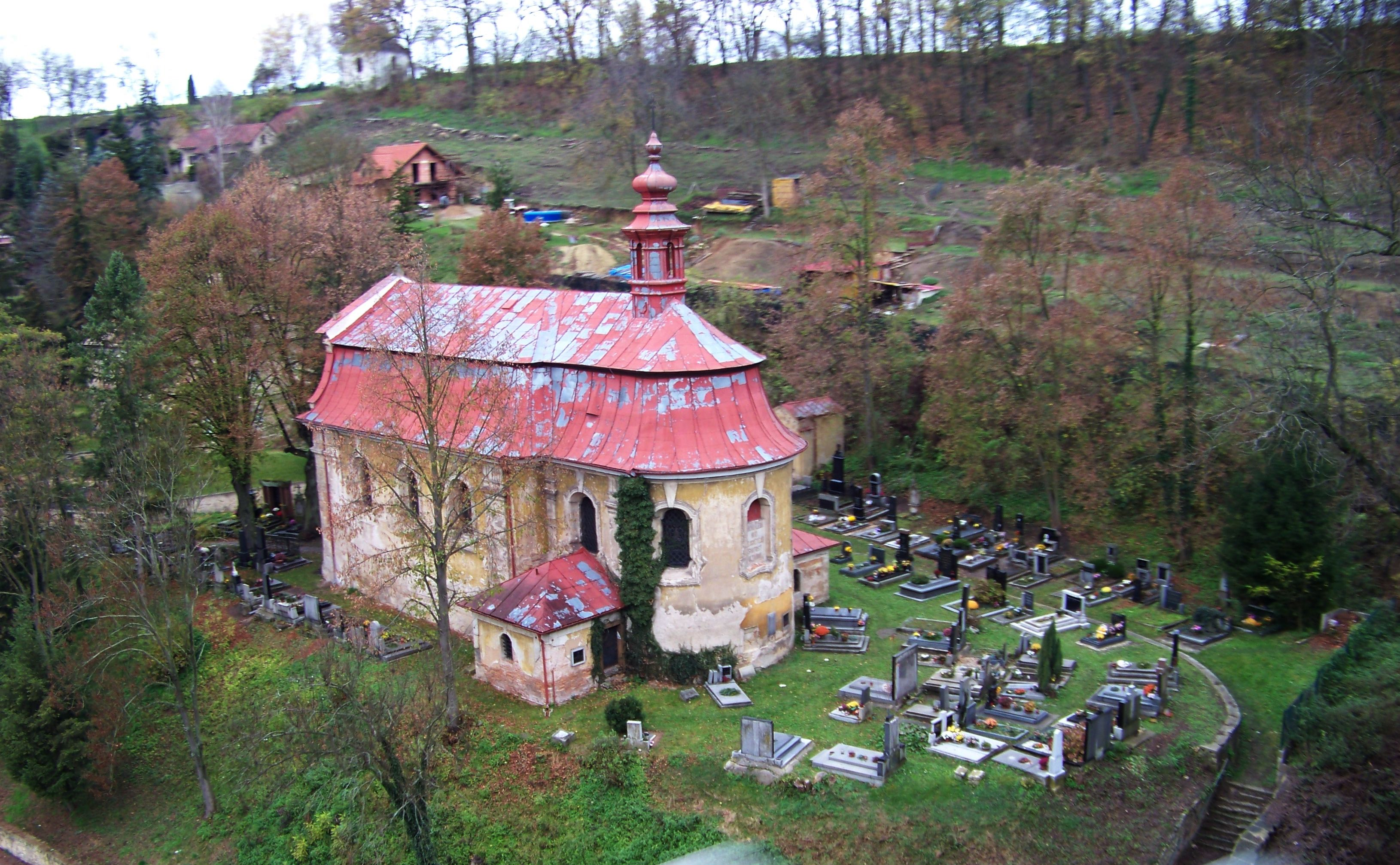 Krnsko, Mladá Boleslav District, Central Bohemian Region, Czech Republic. Church of Saint George, seen from Stránov Viaduct. - OpenStreetMap (Info)